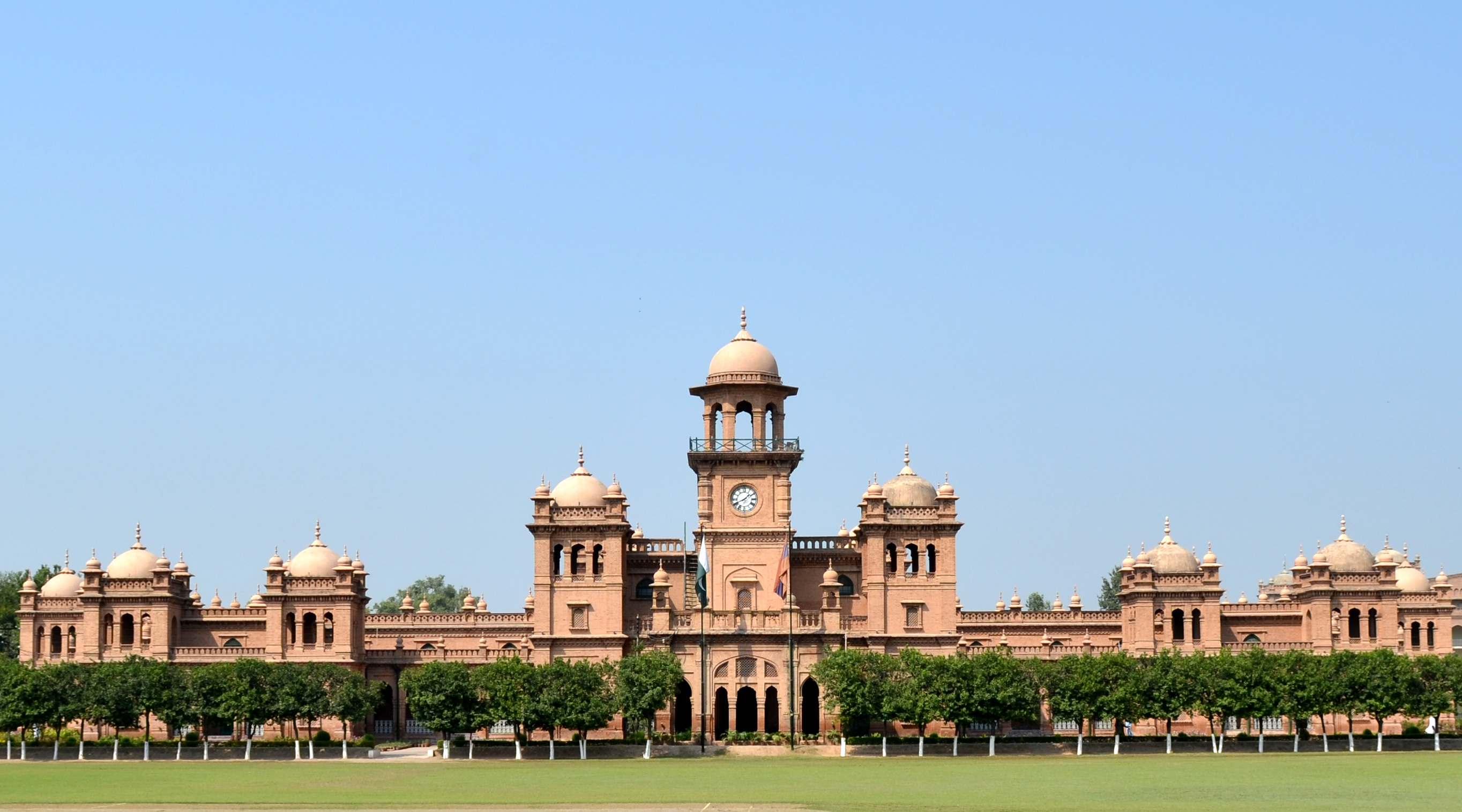 Islamia College Peshawar This is a photo of a monument in Pakistan identified as the KPK-83